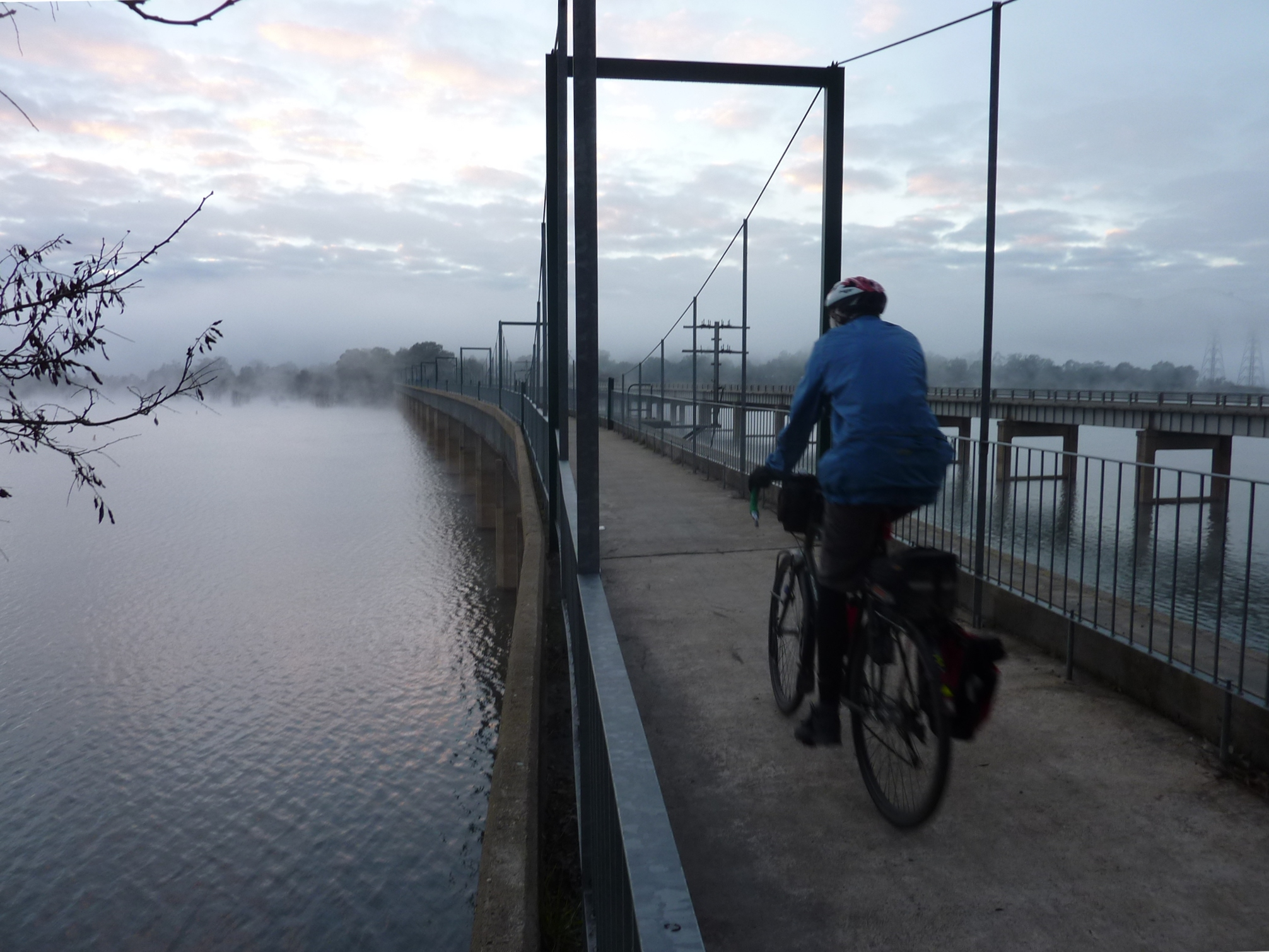 A cyclist crossing the large bridge near Bonnie Doon, on the Goulburn River High Country Rail Trail.